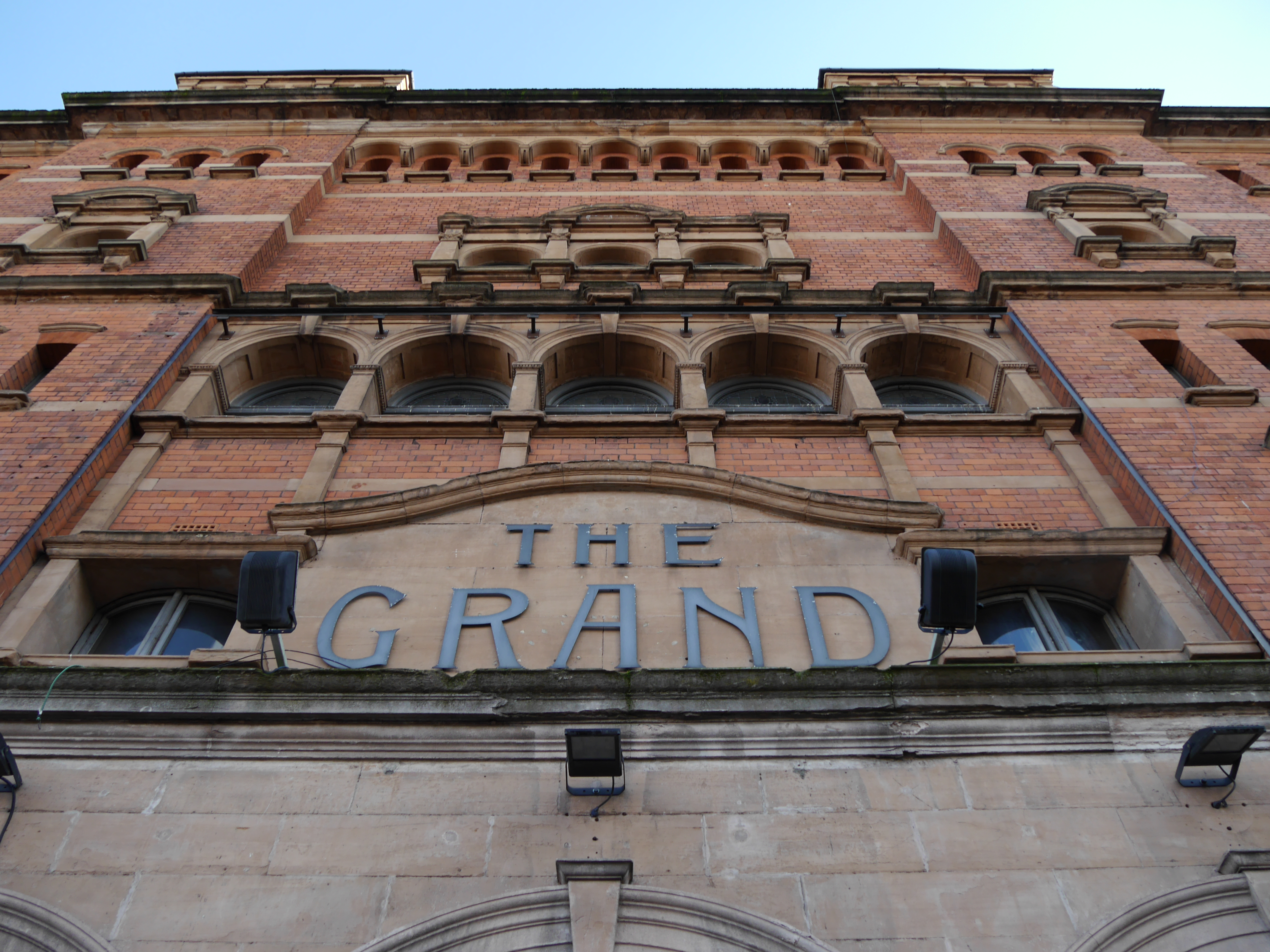 Grand Theatre, Clapham